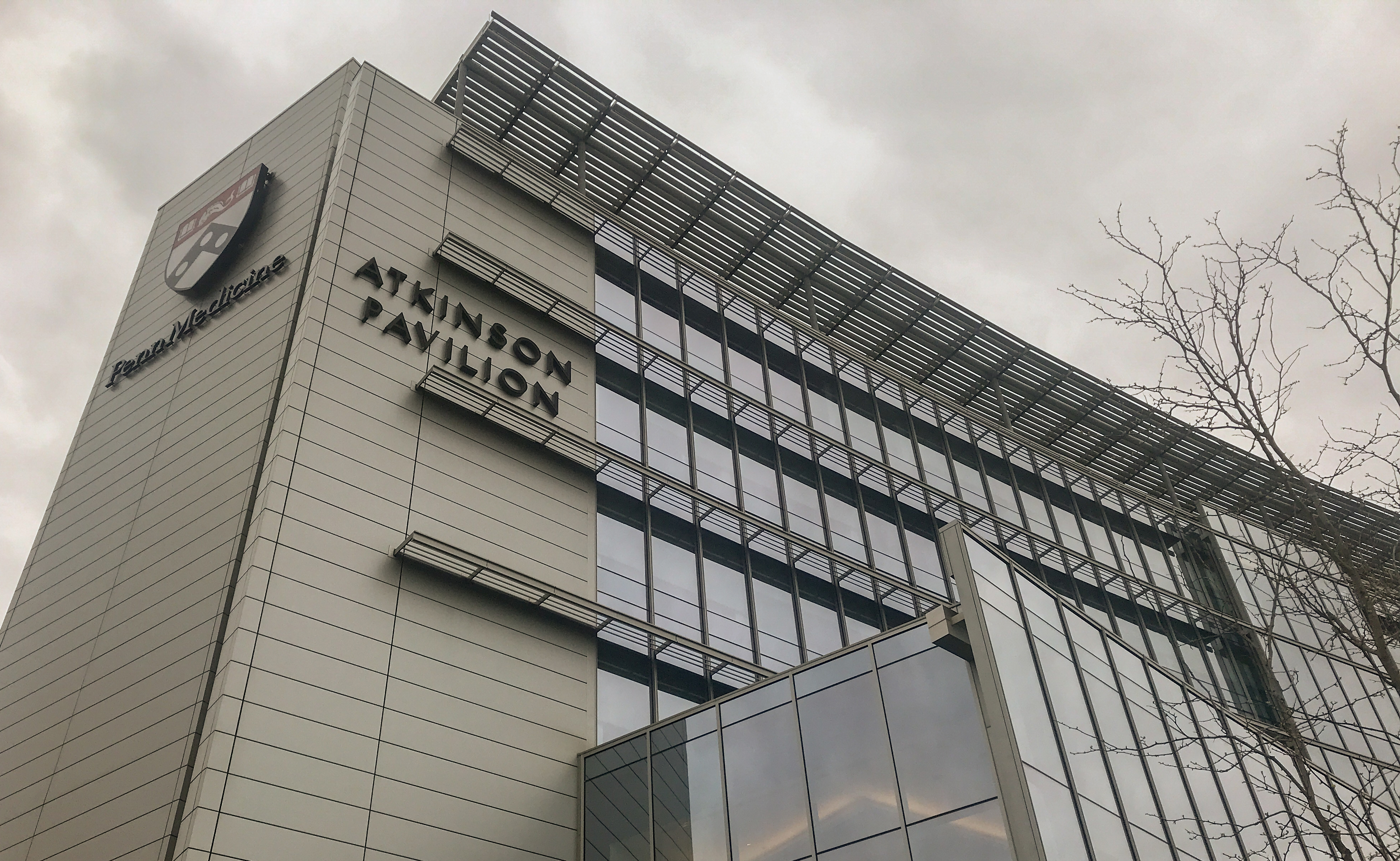 An up close photo of the Atkinson Pavilion of the Penn Medicine Princeton Medical Center.